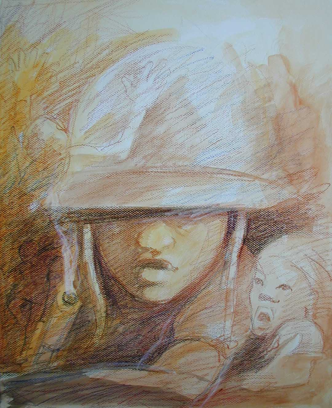 Child Soldier in the Ivory Coast, Africa